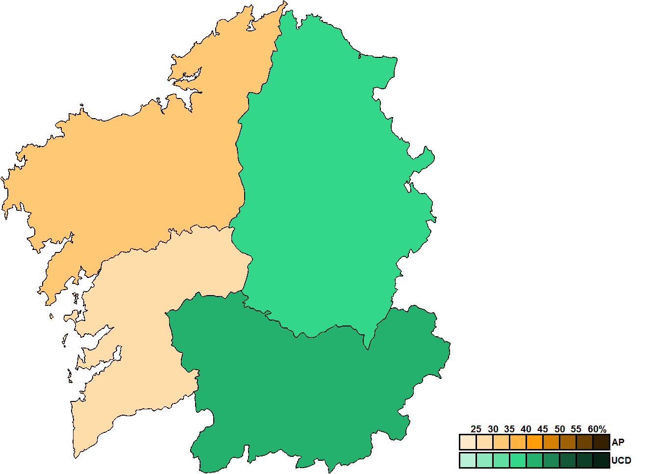 Provincial results for the 1981 Galician regional election.